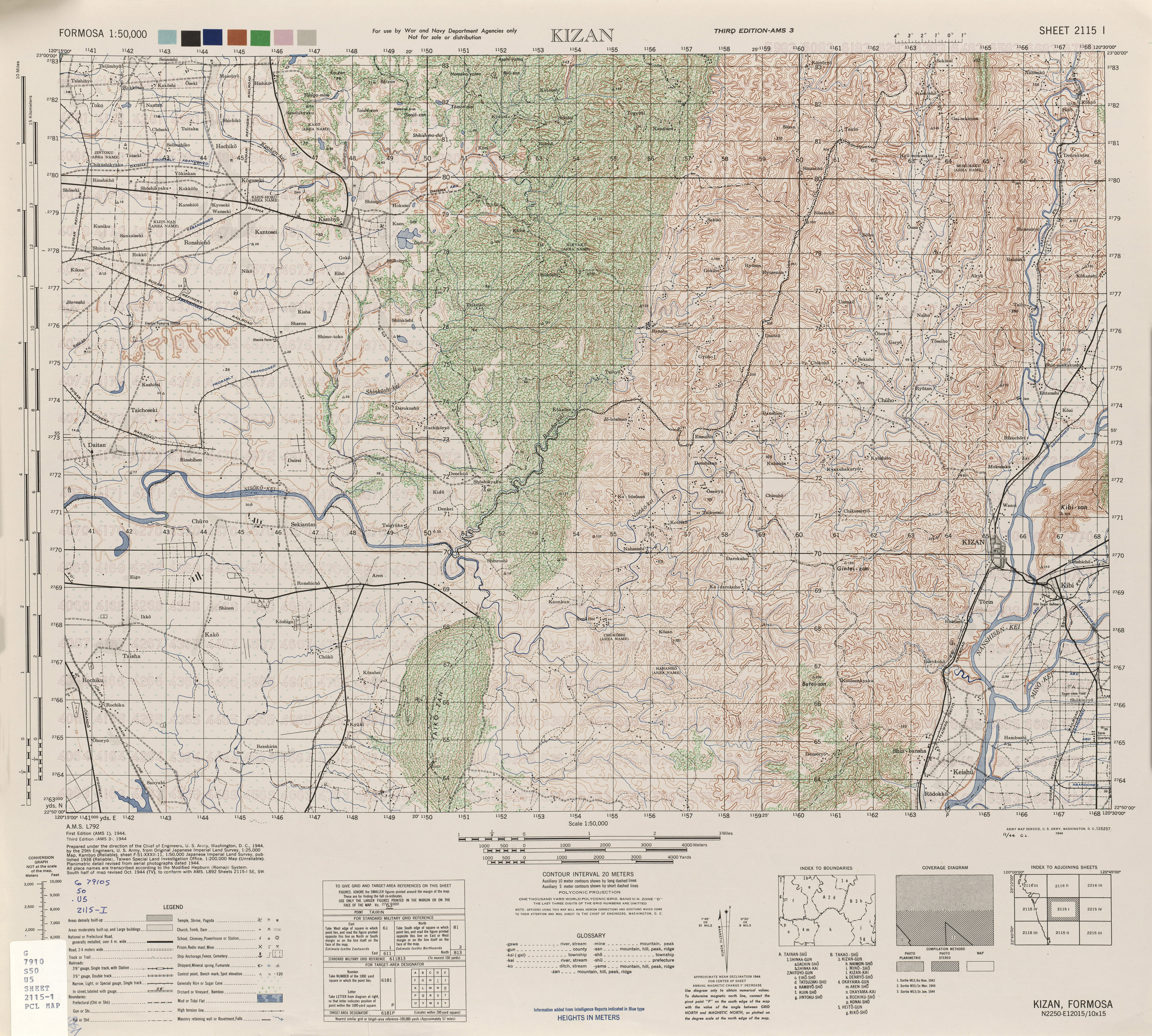 Map of Formosa (Taiwan) 1:50,000 AMS Series L792